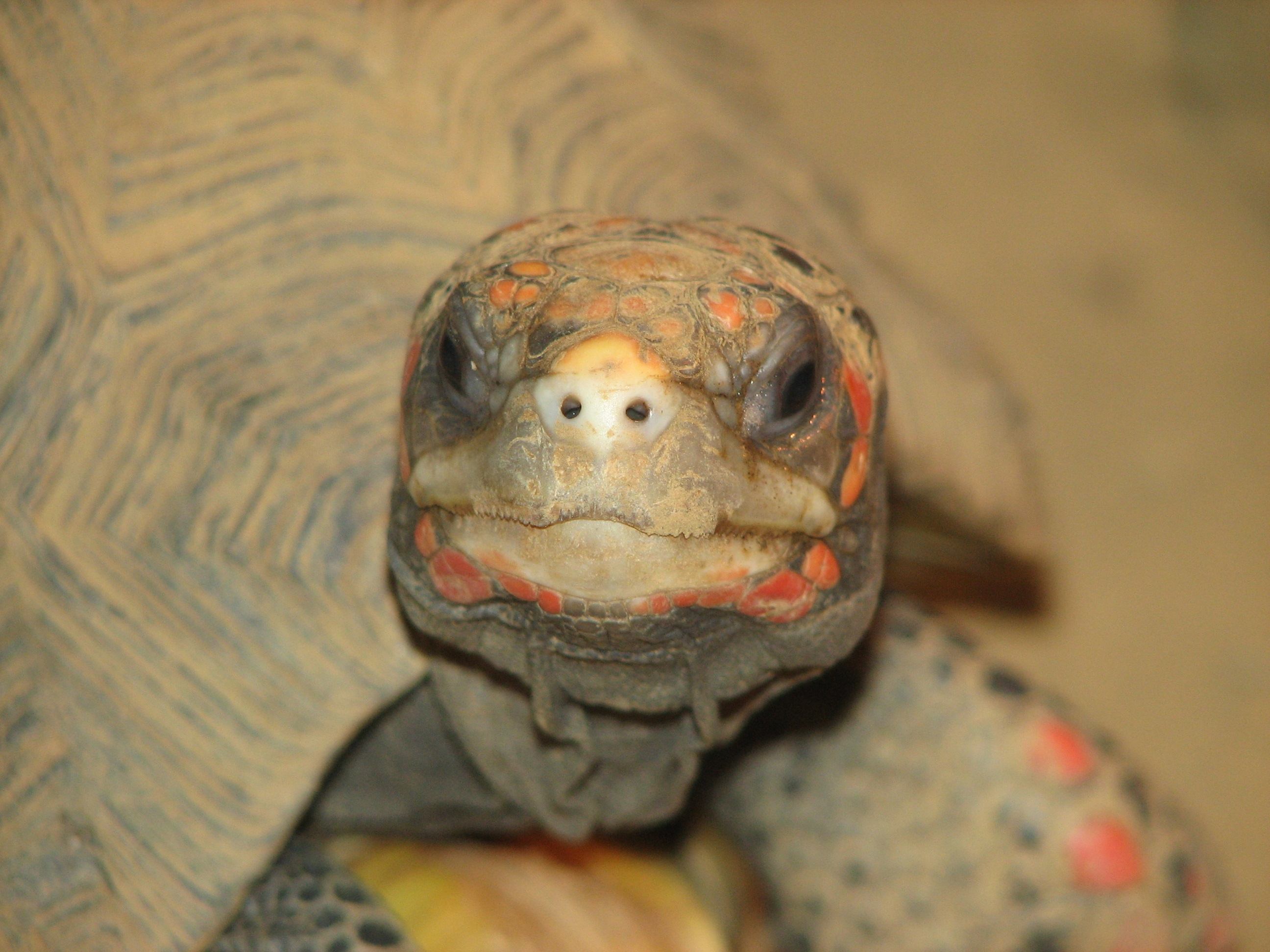 Geochelone carbonaria/Red Footed Tortoise